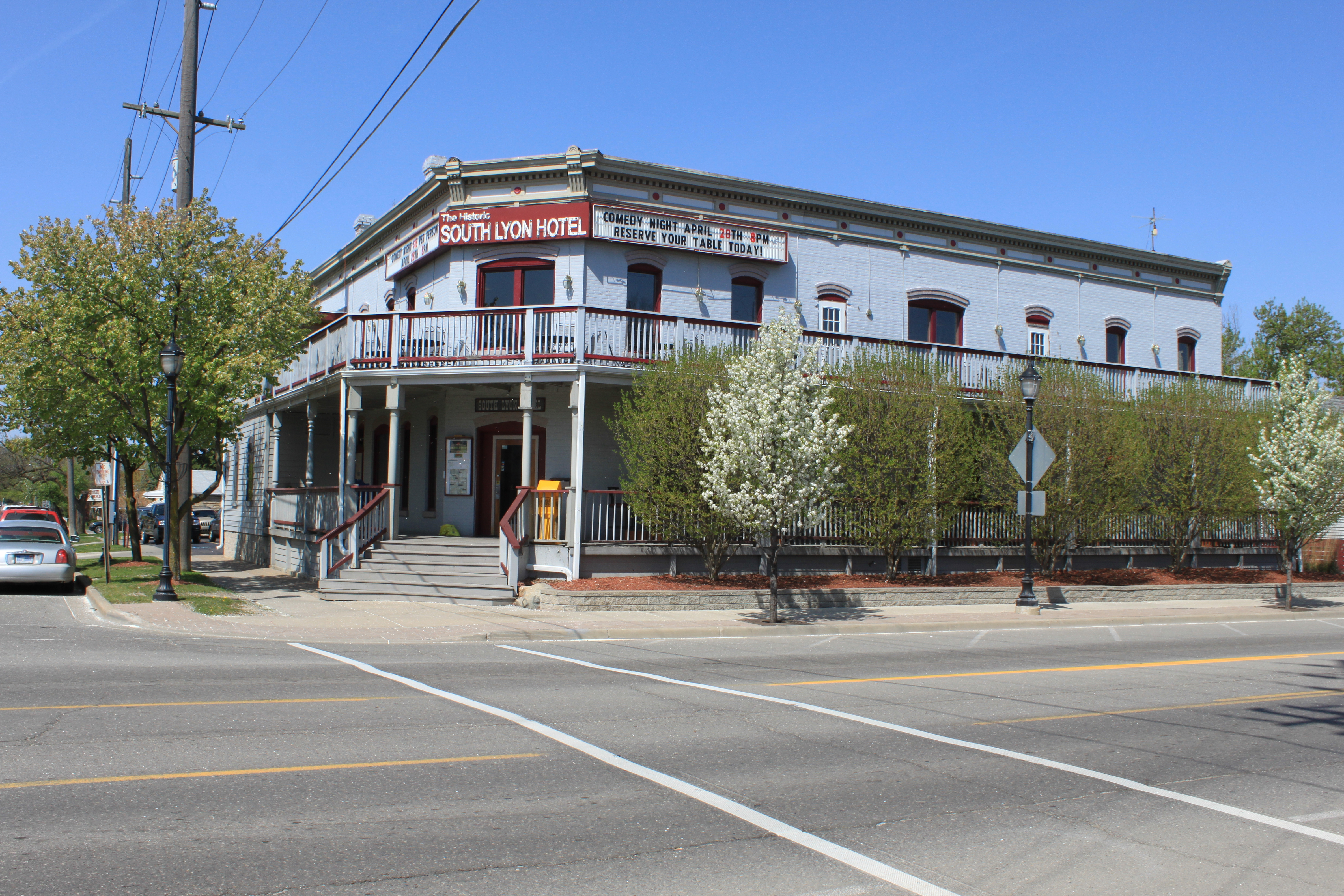 South Lyon Hotel, 201 N. Lafayette, South Lyon, MI 48178-1212